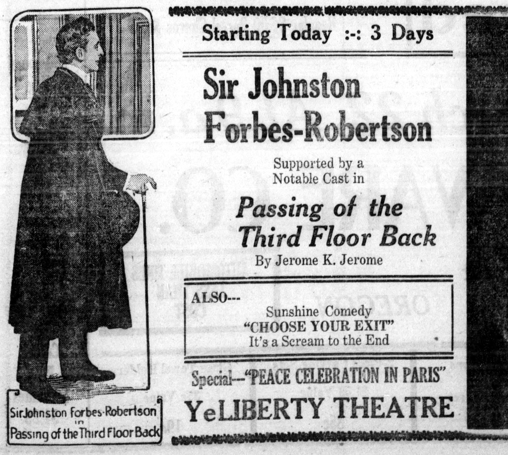 1919 advert for the the film The Passing of the Third Floor Back (1918).